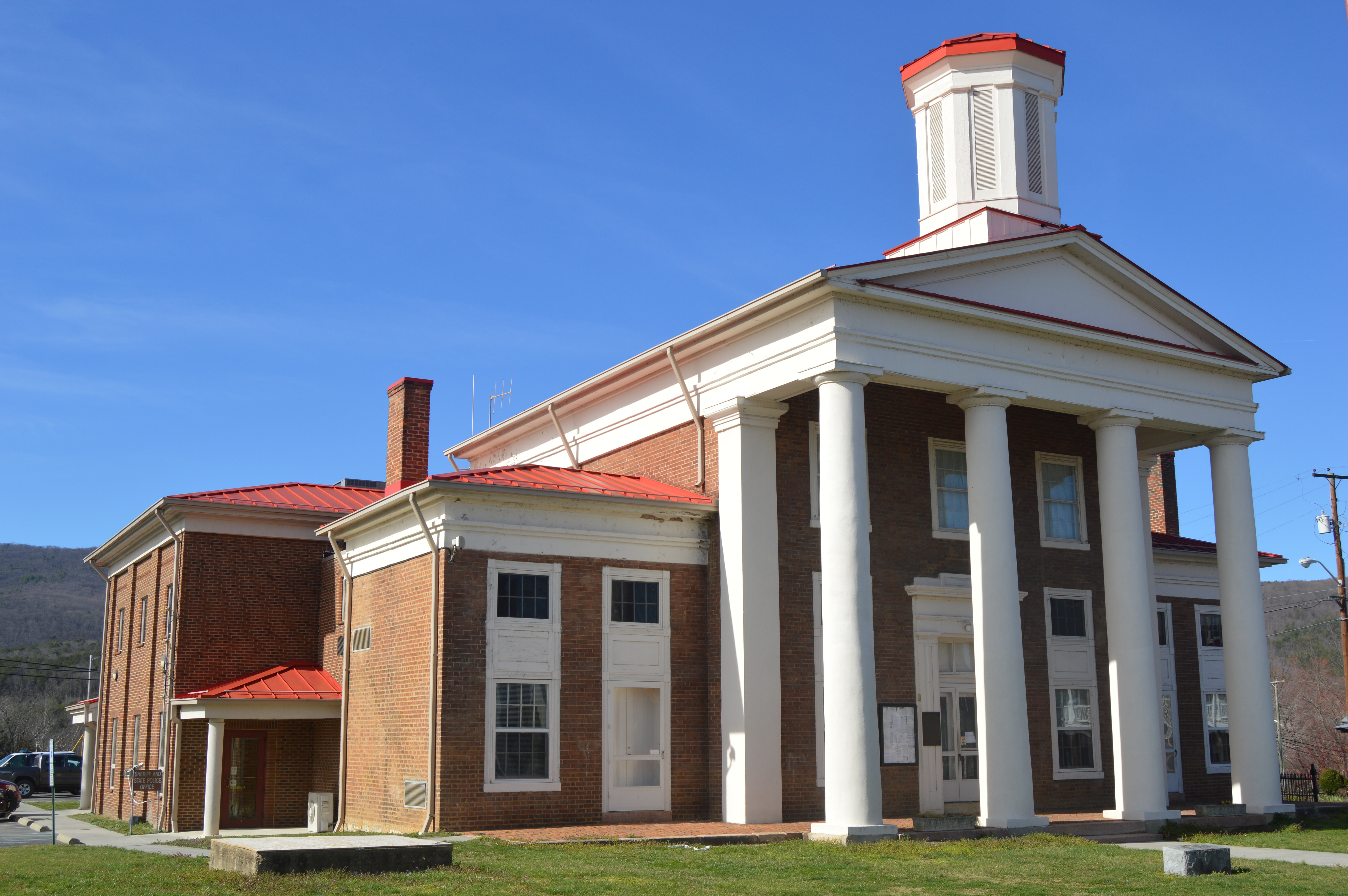 Front and western side of the Craig County Courthouse, located at the intersection of Court and Main Streets in central New Castle, Virginia, United States. Built in 1850, it is the center of the New Castle Historic District, a historic district that is listed on the National Register of Historic Places.